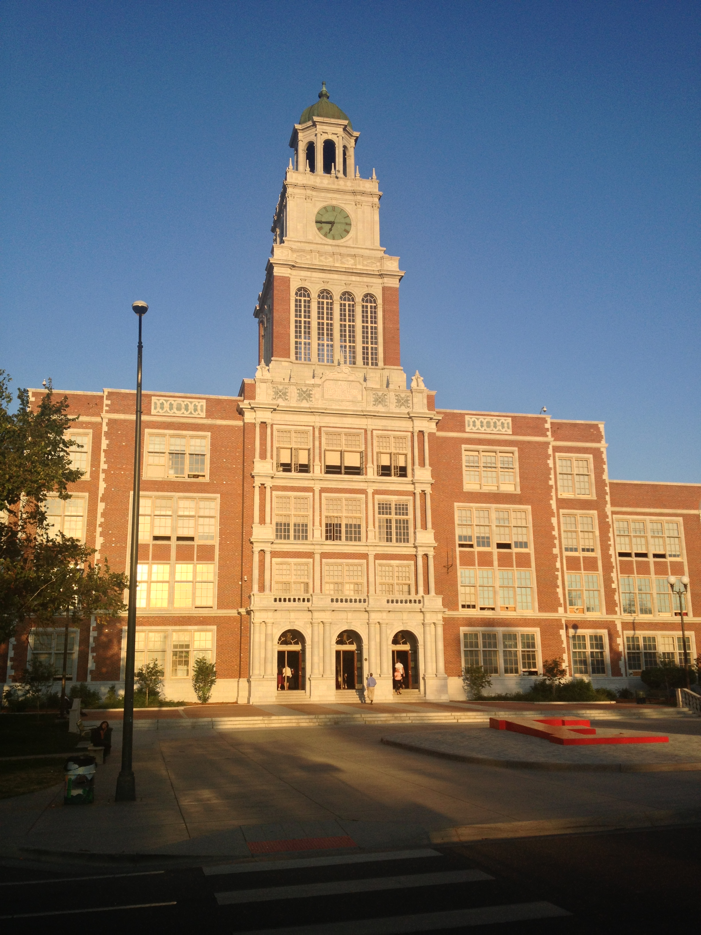 This is the front of East Highs School in Devner, taken early in the evening of Sep 5, 2012 with an iPhone 4S camera set on HDR. East High School (Denver)